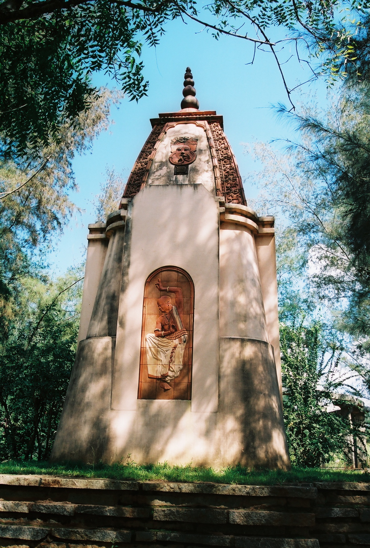 Temple at Nrityagram. Fashioned from the raw mud of Nrityagram and fired after it was built, the temple is dedicated to space. It is decorated with panels depicting the elements, dance motifs, mudras and designs from costumes and ghungroos. Inside is a granite rock scooped out to hold water and a flame that stays lit. Designed and built by Ray Meeker in 1998.